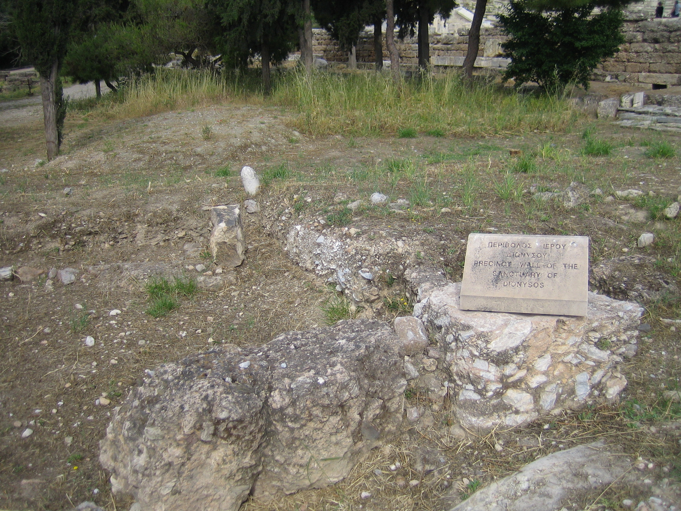 Ruins of the Sanctuary of Dionysus Eleuthereus, Acropolis of Athens.